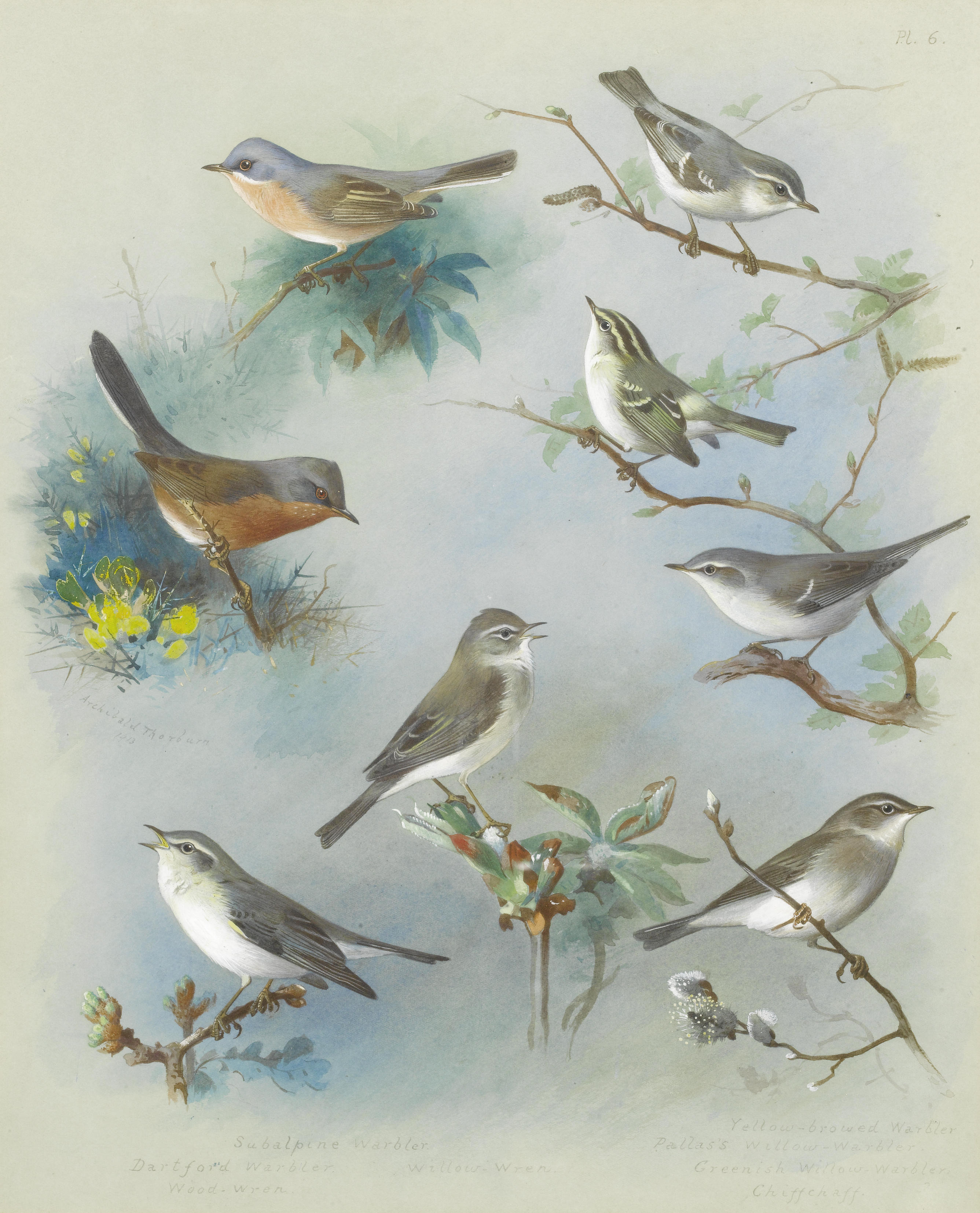 Warbler and Wrens. An illustration for plate 6 of Thorburn's British Birds, signed and dated Archibald Thorburn/1913 watercolour and bodycolour, 46.5 x 37.5 cm